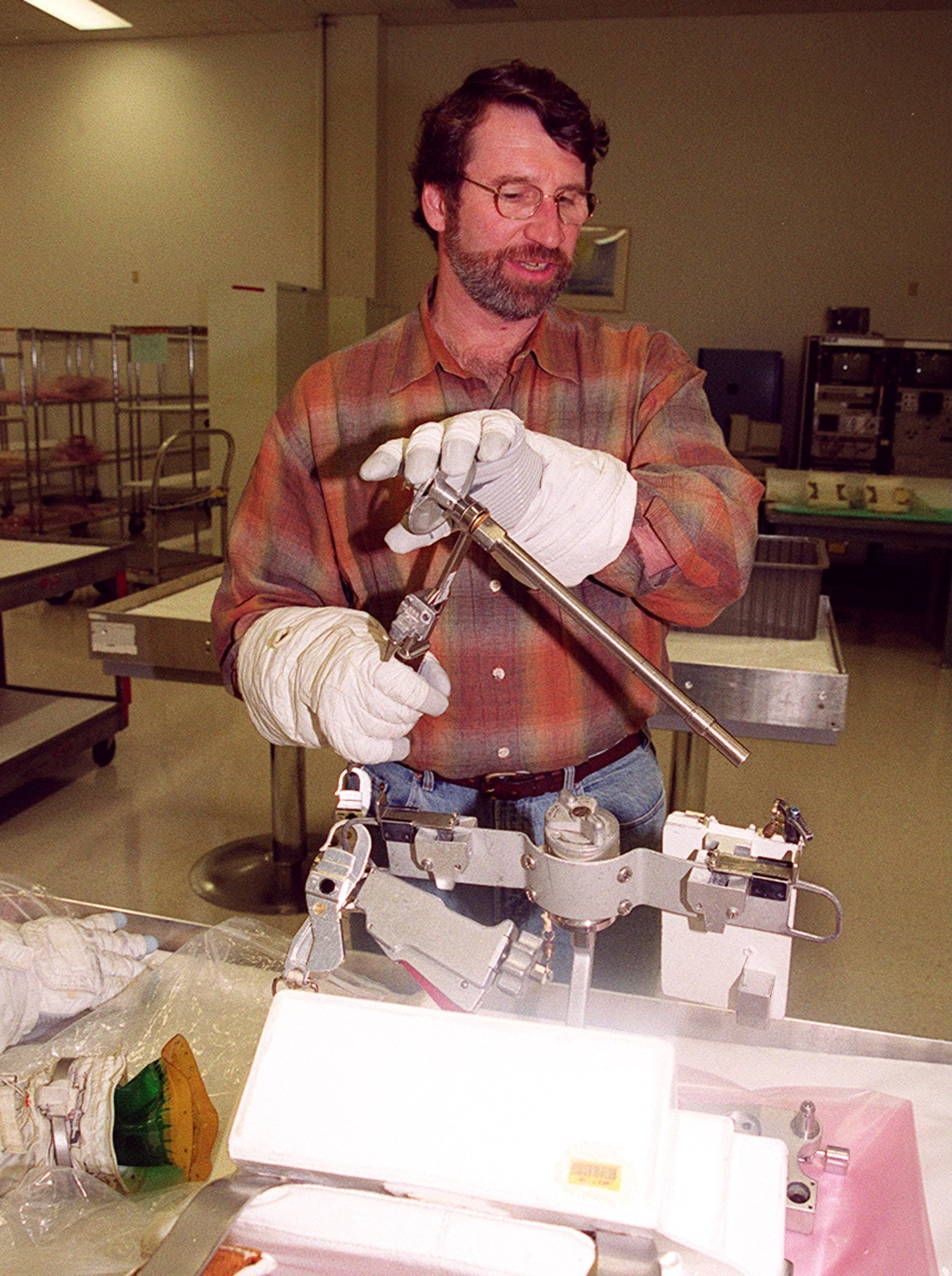 Norm Abram of This Old House and The New Yankee Workshop tries out a tool used in space while wearing gloves that are part of the spacewalking suit while recording an episode of This Old House